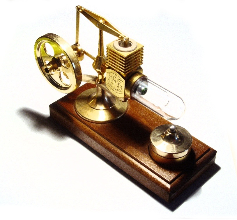 By Richard Wheeler (Zephyris) 2007. A gold plated desktop stirling engine. The working fluid in this engine is air. The hot heat exchange is the glass cylinder on the right, and the cold heat exchanger is the finned cylinder on the top. This engine uses a small alcohol burner (bottom right) as a heat source.